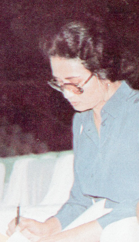 Ade Irawan signing autographs at the 1982 Indonesian Film Festival in Jakarta